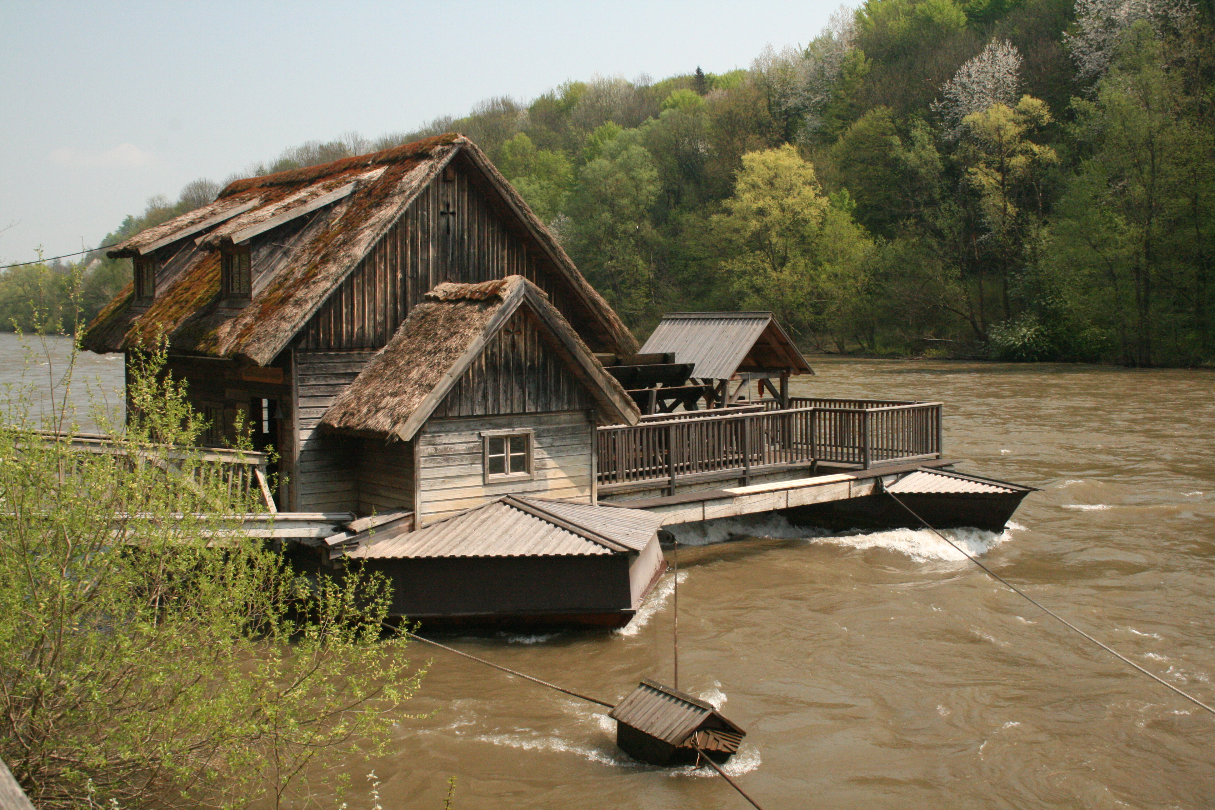 Shipmill on the river Mur in Mureck, Styria, Austria, Europe